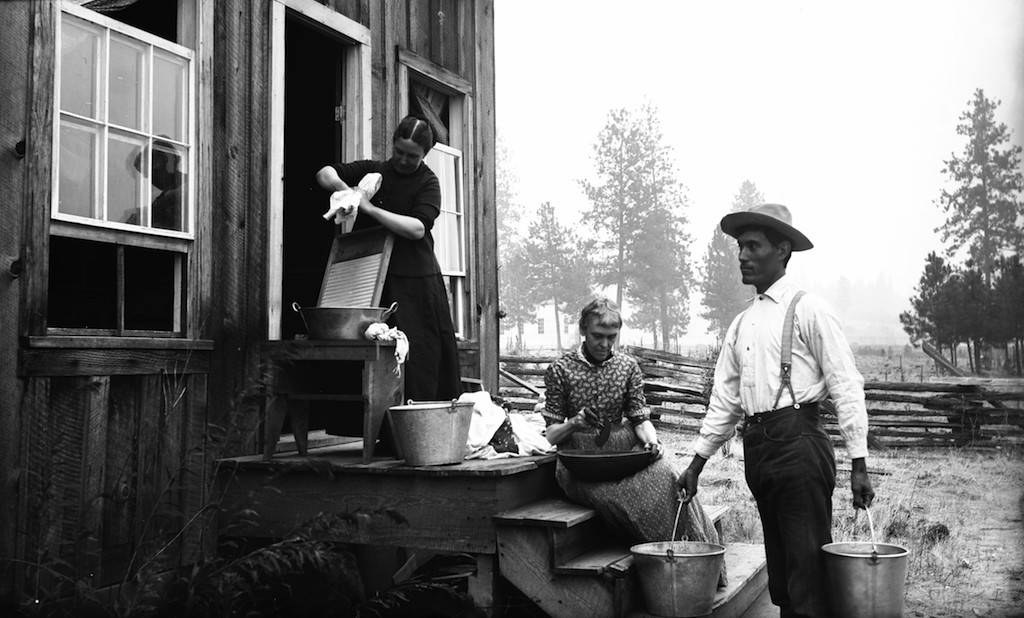 JPG file of a black and white photograph of Alice Cunningham Fletcher, Emma Jane Gay, and James Stuart.